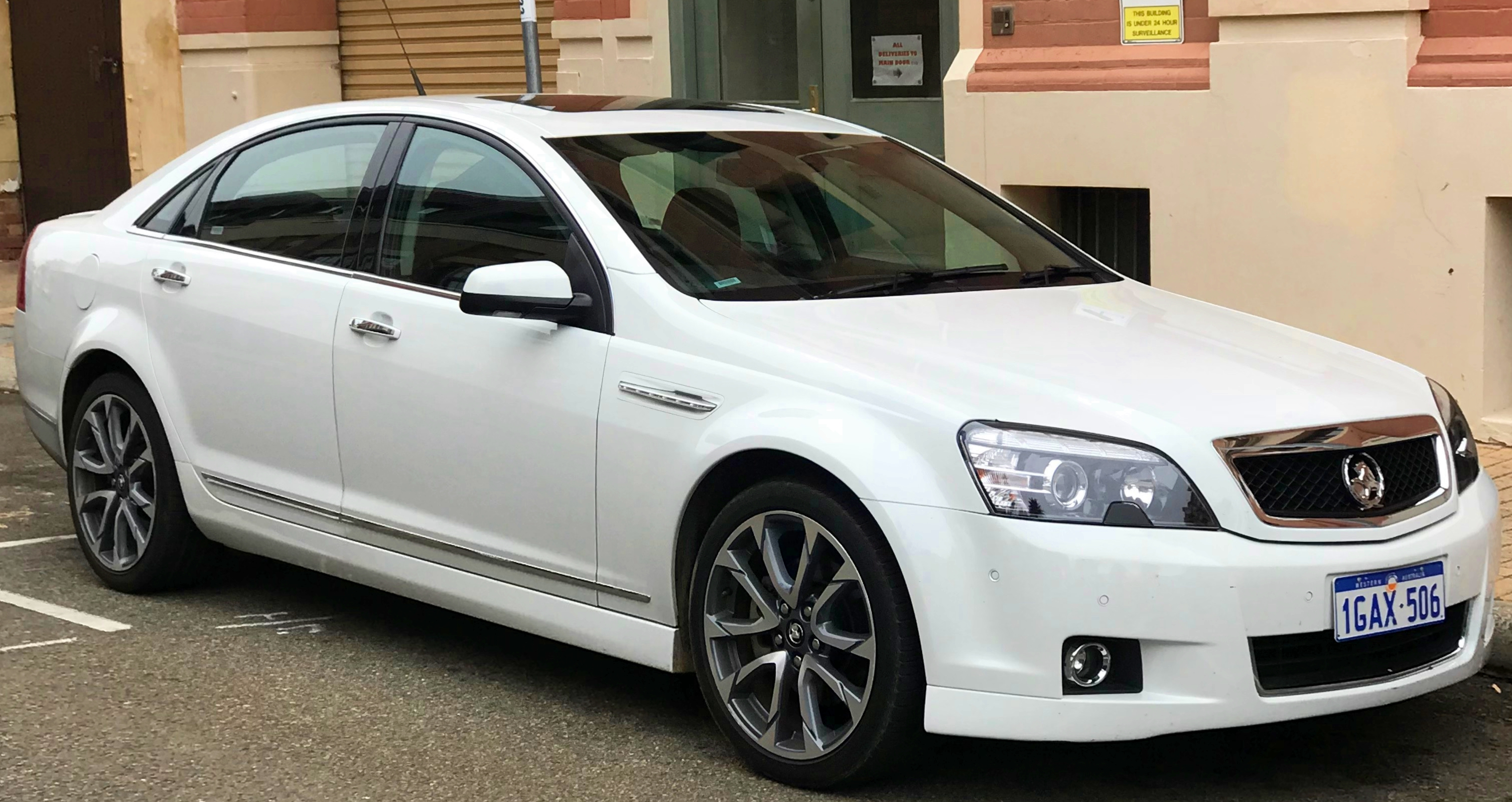 2016 Holden Caprice (WN II) V sedan. Photographed in Fremantle, Western Australia, Australia.